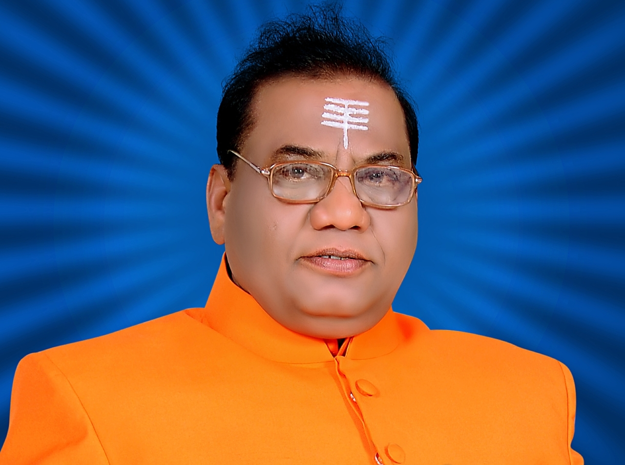 This is a photo of Prabodhananda Yogeeswarulu